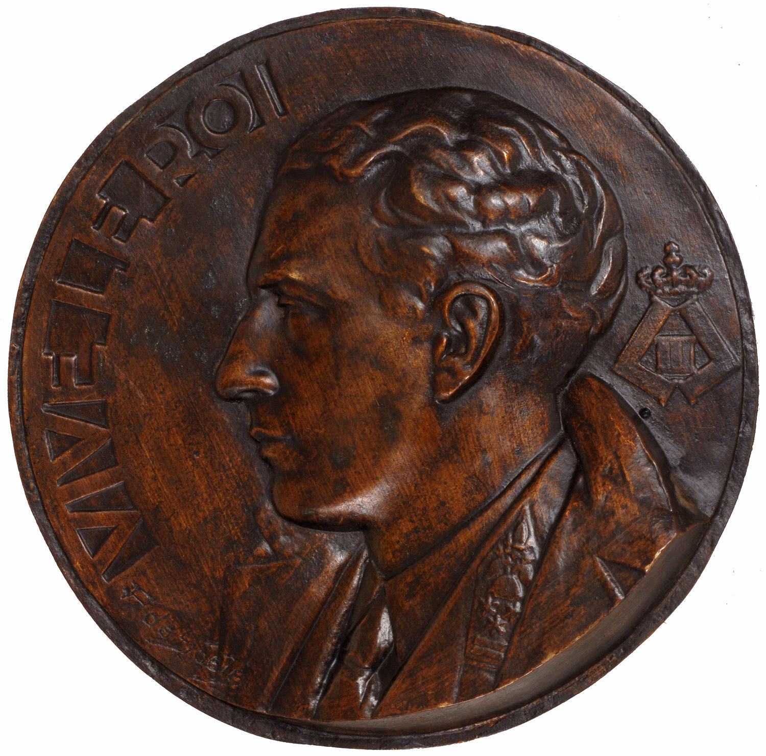 bas-relief in the collection Marie-Louise Dupont